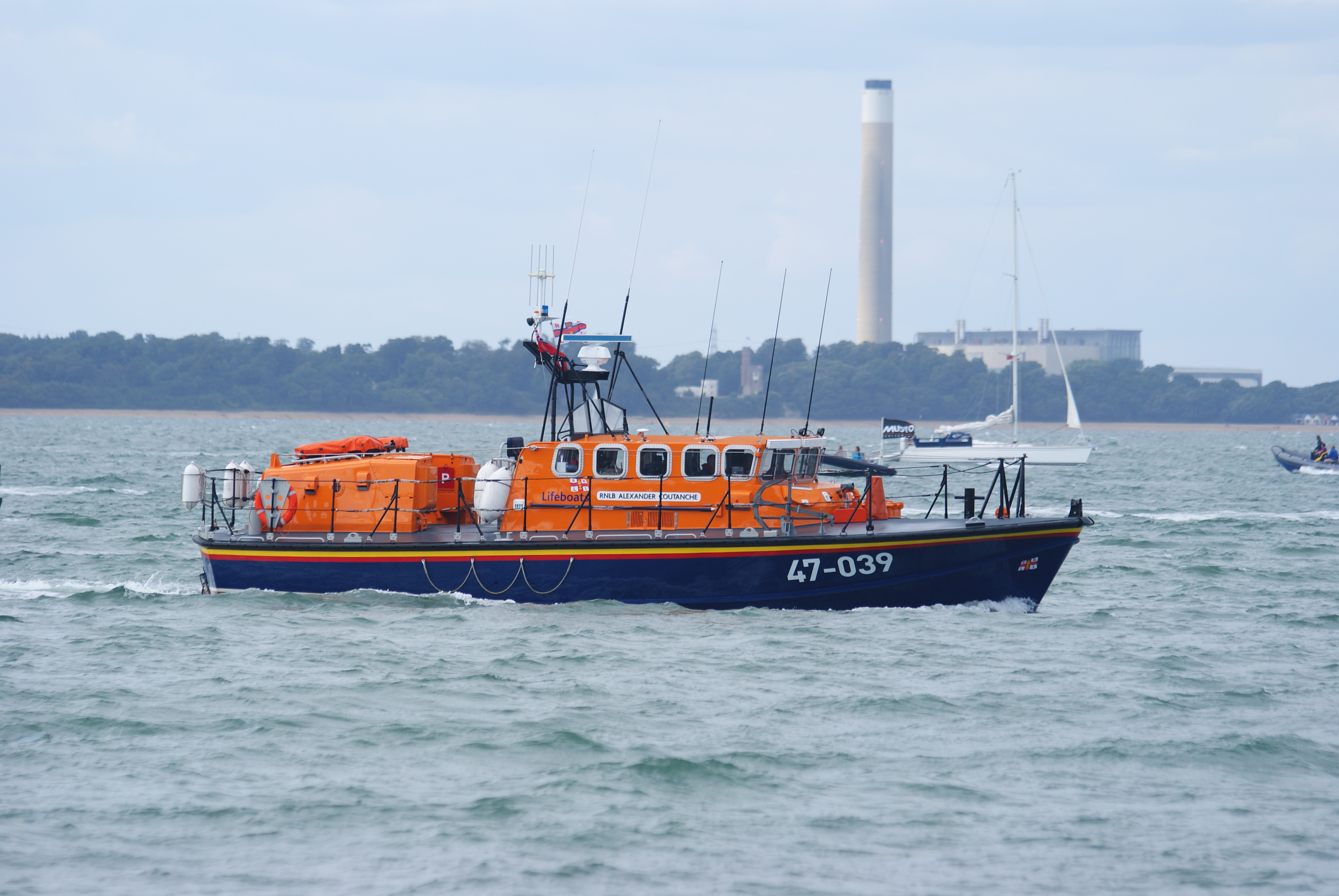 The Calshot Tyne-class lifeboat RNLB Alexander Coutanche (ON 1157)